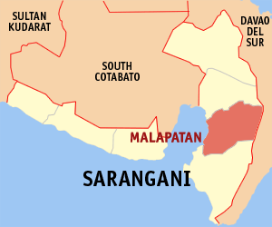 Map of the Sarangani showing the location of Malapatan